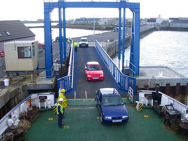 Stronsay pier from on board Varagen. The Varagen, operated by Orkney Ferries, sails between Kirkwall and Eday via Stronsay. This picture is taken from the upper deck whilst cars are being loaded at Stronsay. They will then travel to Kirkwall via Eday. At busy times cars for different destinations have to be carefully positioned on the vehicle deck to ensure they can disembark.